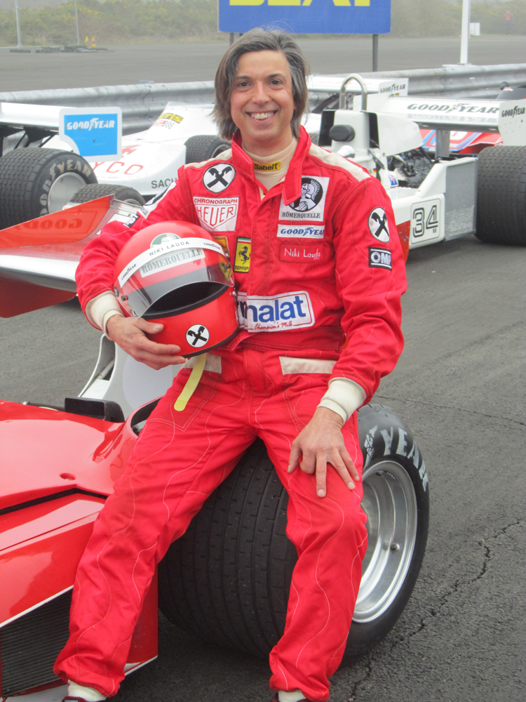 Mauro Pane on RUSH set movie in March 2012